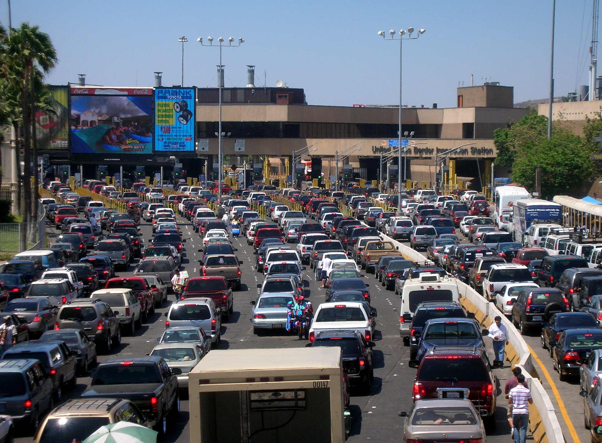 Northbound traffic waiting to enter the United States from Tijuana, Baja California, Mexico to San Ysidro, California, United States